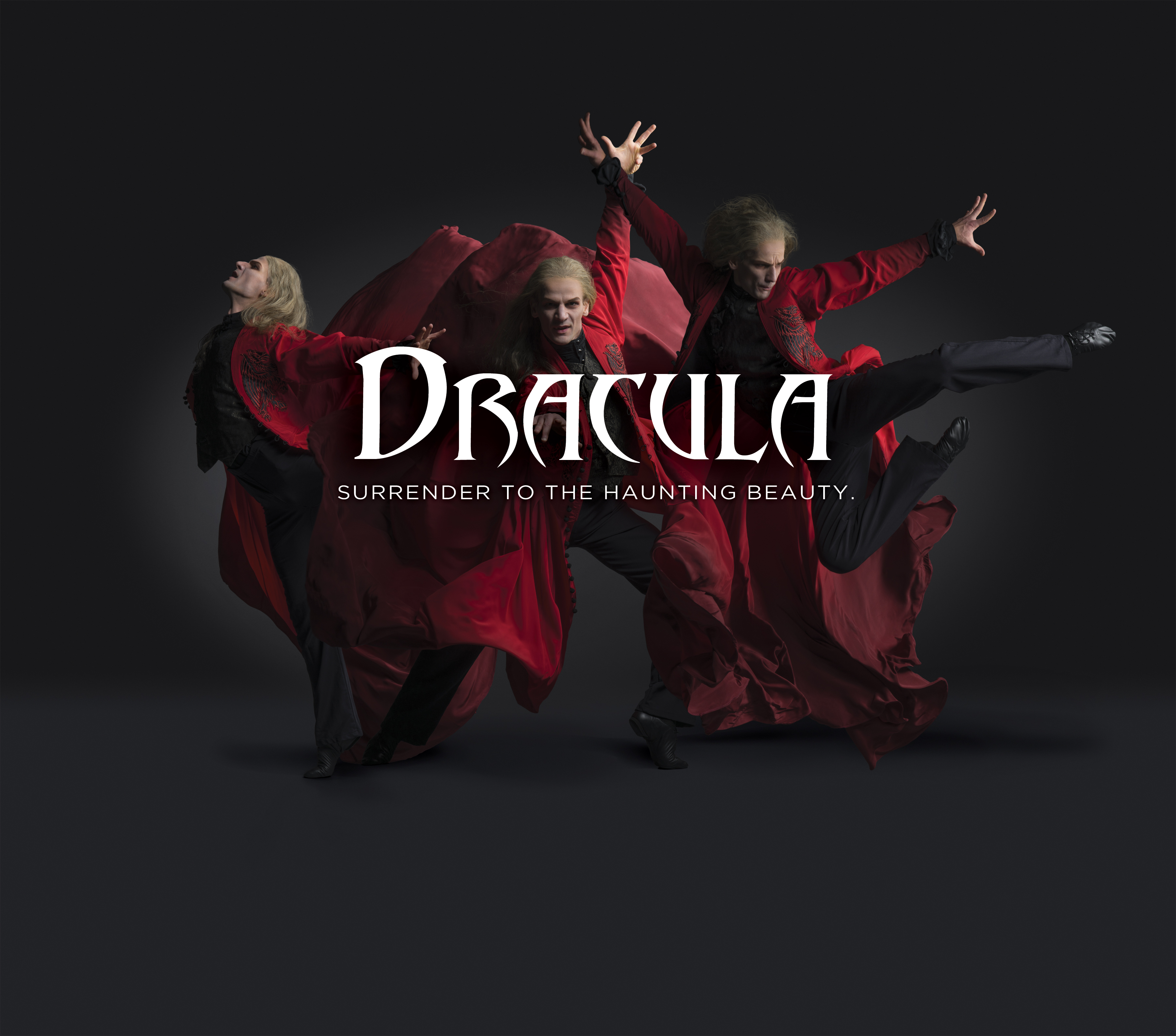 Dancer Logan Pachciarz. Photography Kenny Johnson.